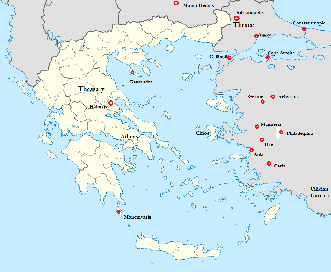 Map showing movements of the Great Catalan Company